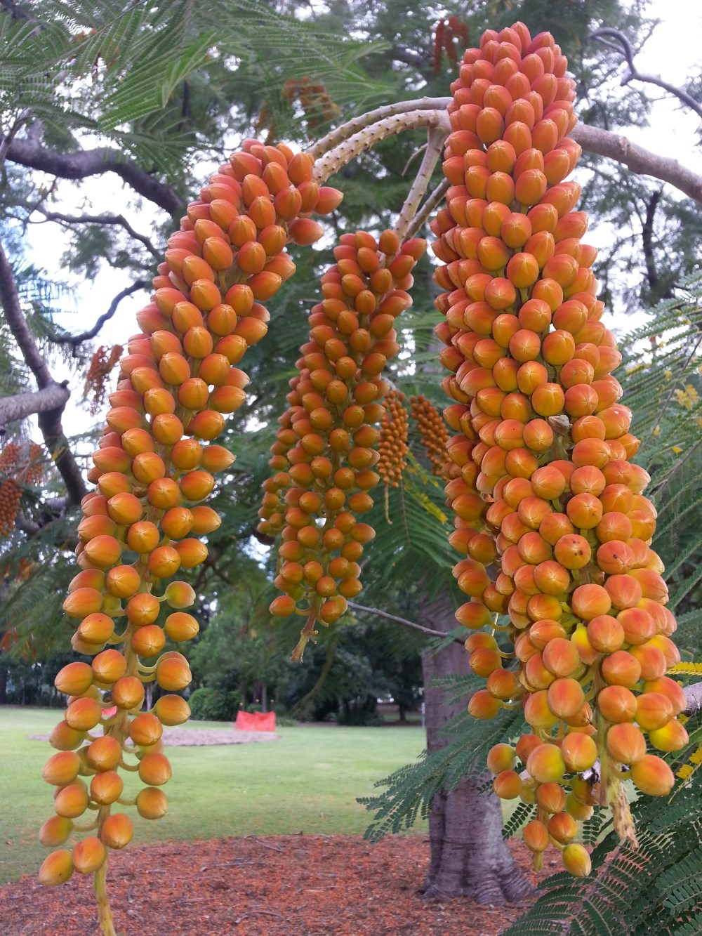 Close up detail of flower buds on a colvillea racemosa (Colville's Glory) tree growing in the Brisbane City Botanic Gardens.